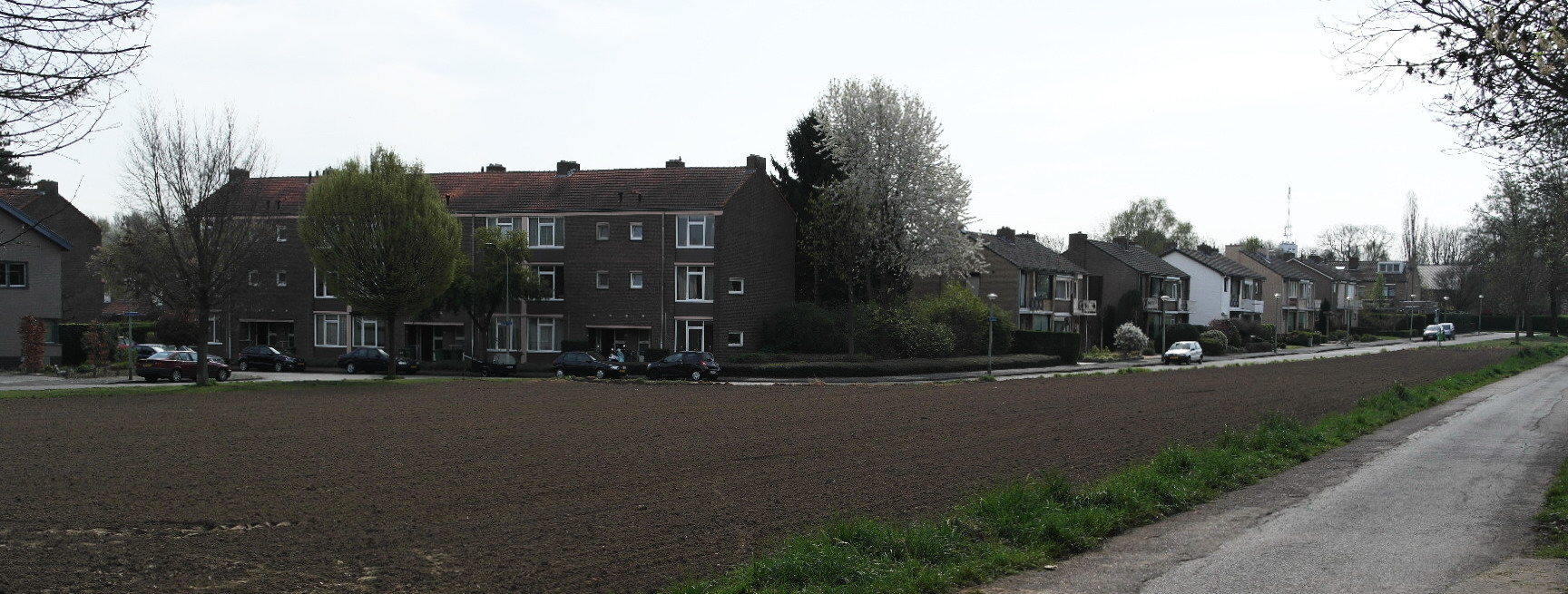 Maastricht, the Netherlands. Family homs on the western fringe of the Maastricht-West neighbourhood of Pottenberg overlooking Dousberg.